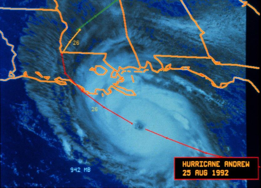 Hurricane Andrew approaching the coast of Louisiana